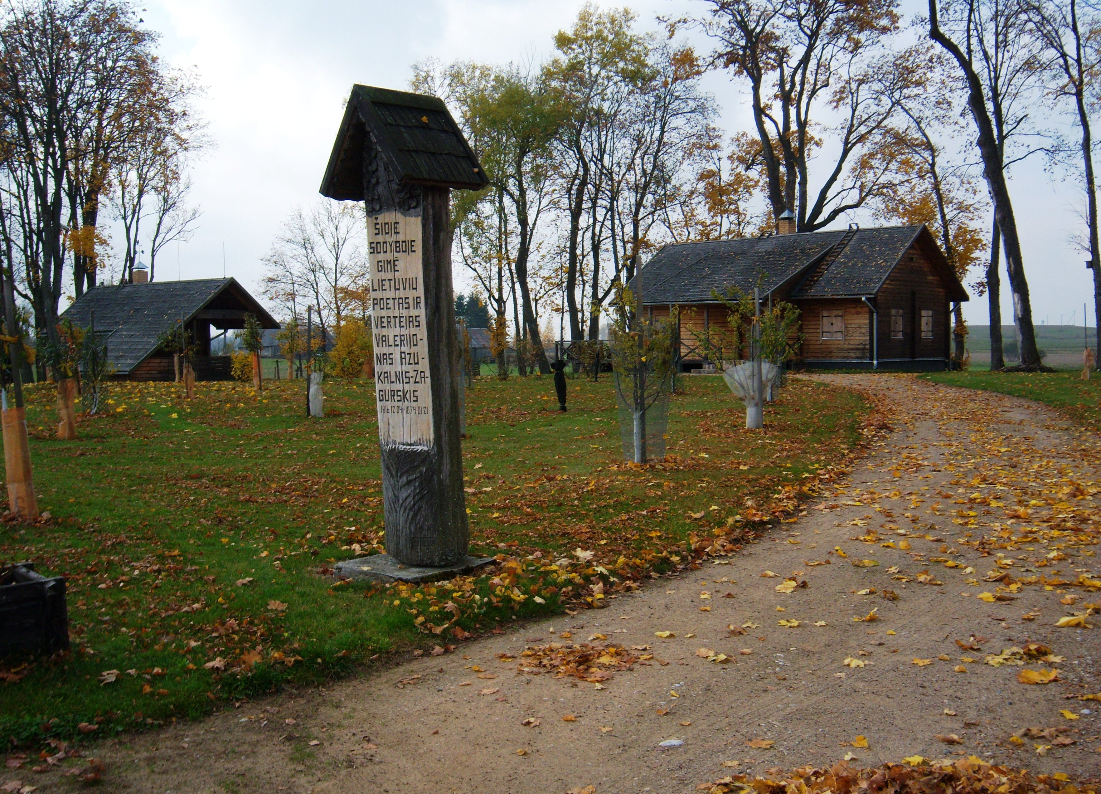 Gaidamoniai, writer Ažukalnis' house, Molėtai District, Lithuania